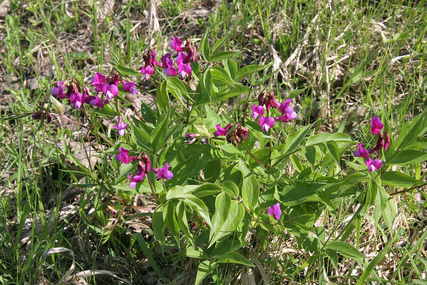 Lathyrus vernus author:Prazak